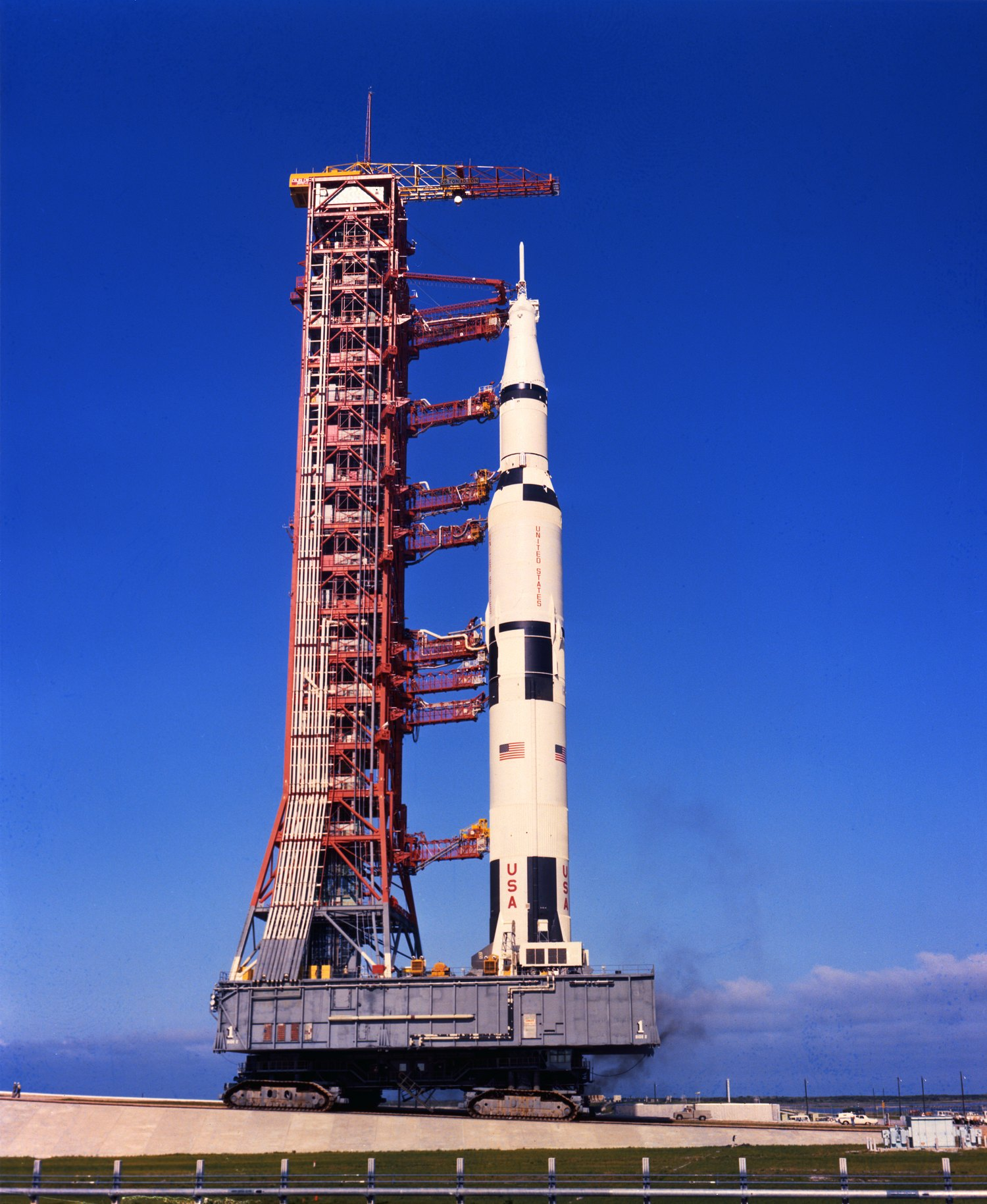 Apollo 11 Saturn V on the Crawler as it begins to go up the ramp to Pad 39-A